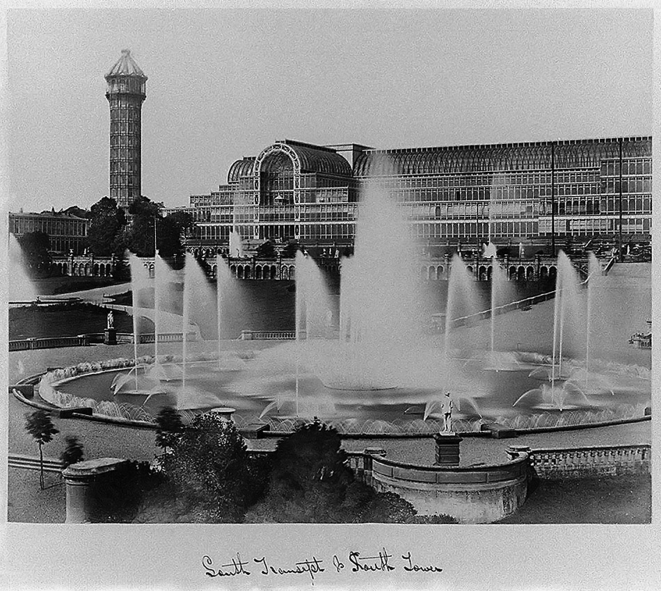 Crystal Palace South transept & south tower from Water Temple